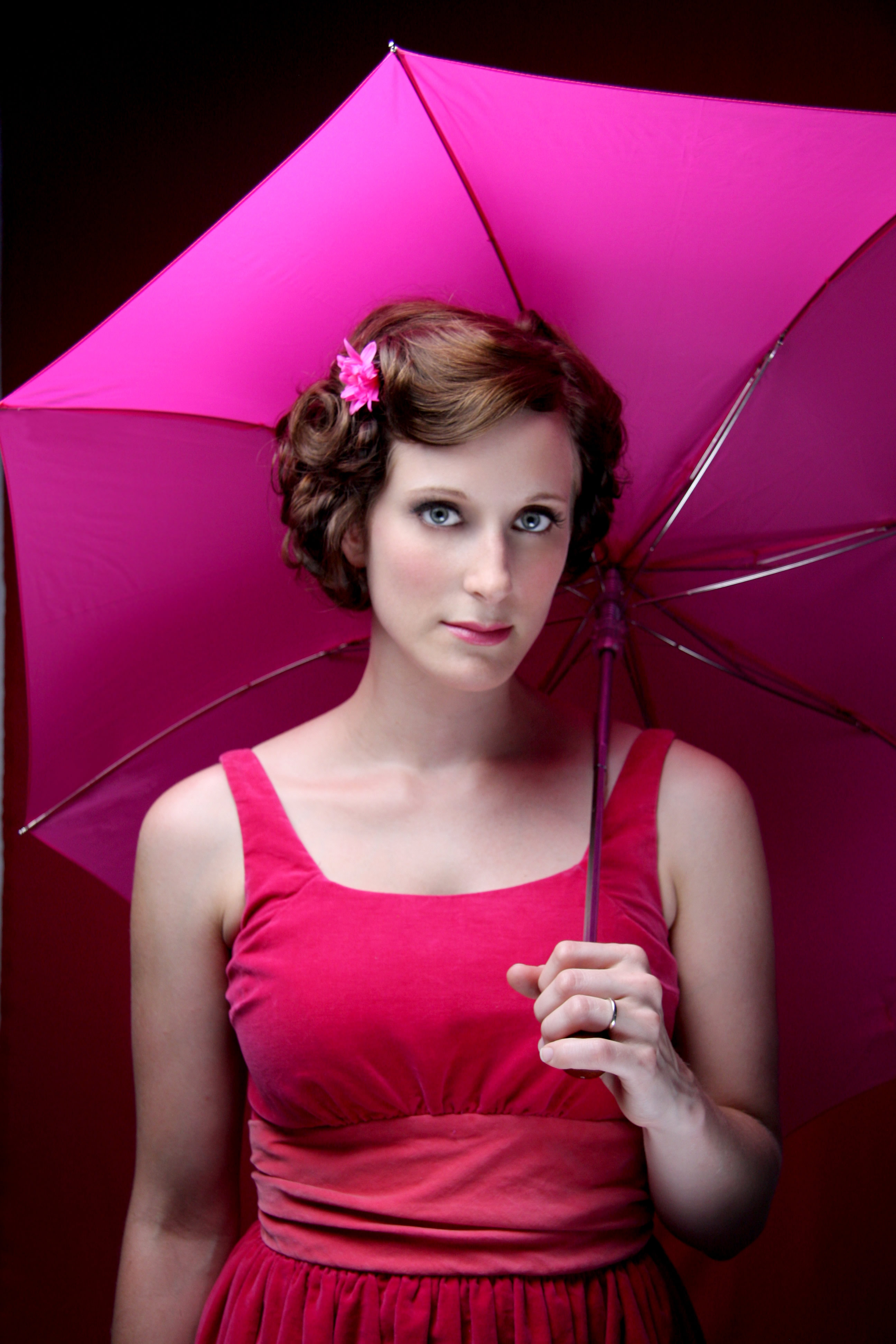 Melissa McClelland press photo